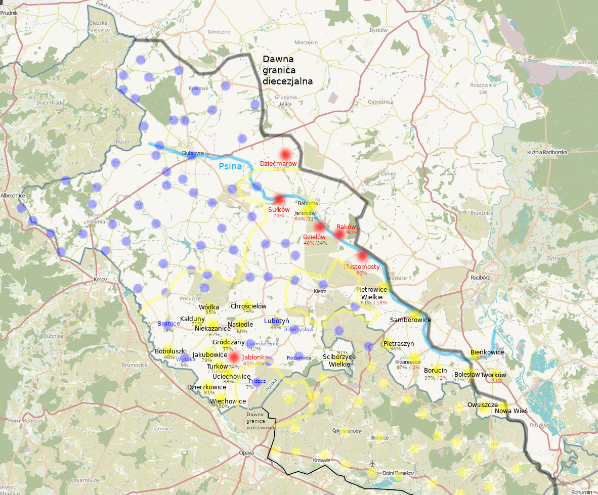 "Polish Moravia" yellow dots - Czech/Moravian speaking settlements in the beginning of the 20th century red dots - Polish speaking settlements in the beginning of the 20th century blue dots - German speaking settlements blue line - Psina River black line in the north - Historical northern moravian border in Poland black line in the south - Historical southern german border in the Czech Republic (1742-1919) yellow line - Moravian church language in the 17th century based on [1], witch itself is based on bishopric visitations reports based on : p. 120